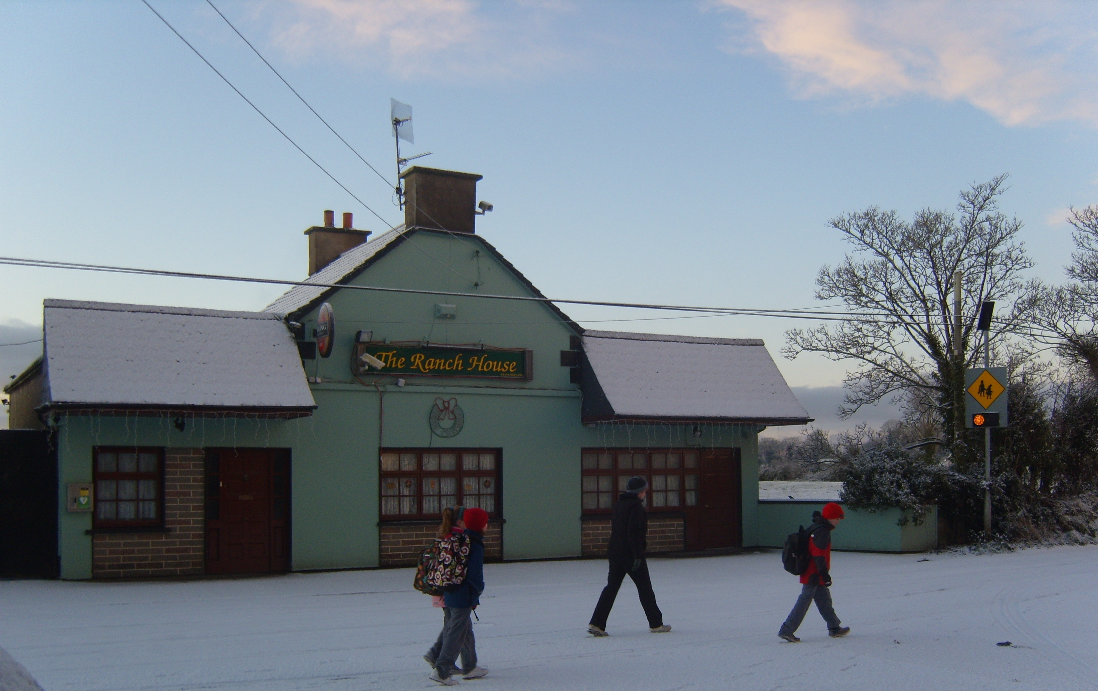 Ranch House Pub, Arywee, Winter Solstice 2009.